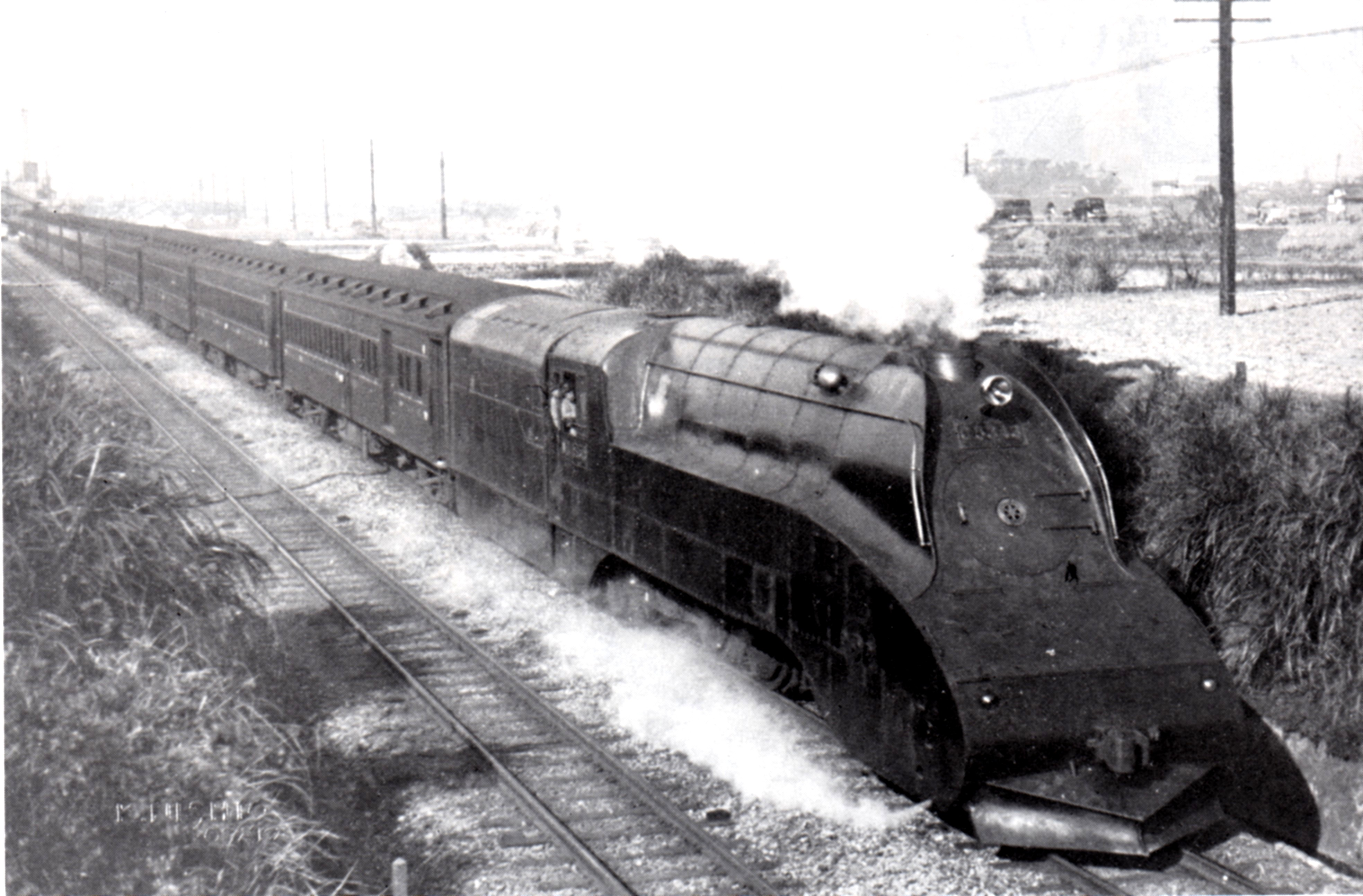 Japanese Governmental Railways type C53 steam locomotive No.43 is hauling a train. No.43 is the only locomotive which get streamlined style in type C53. Photo taken at Nishiakashi.